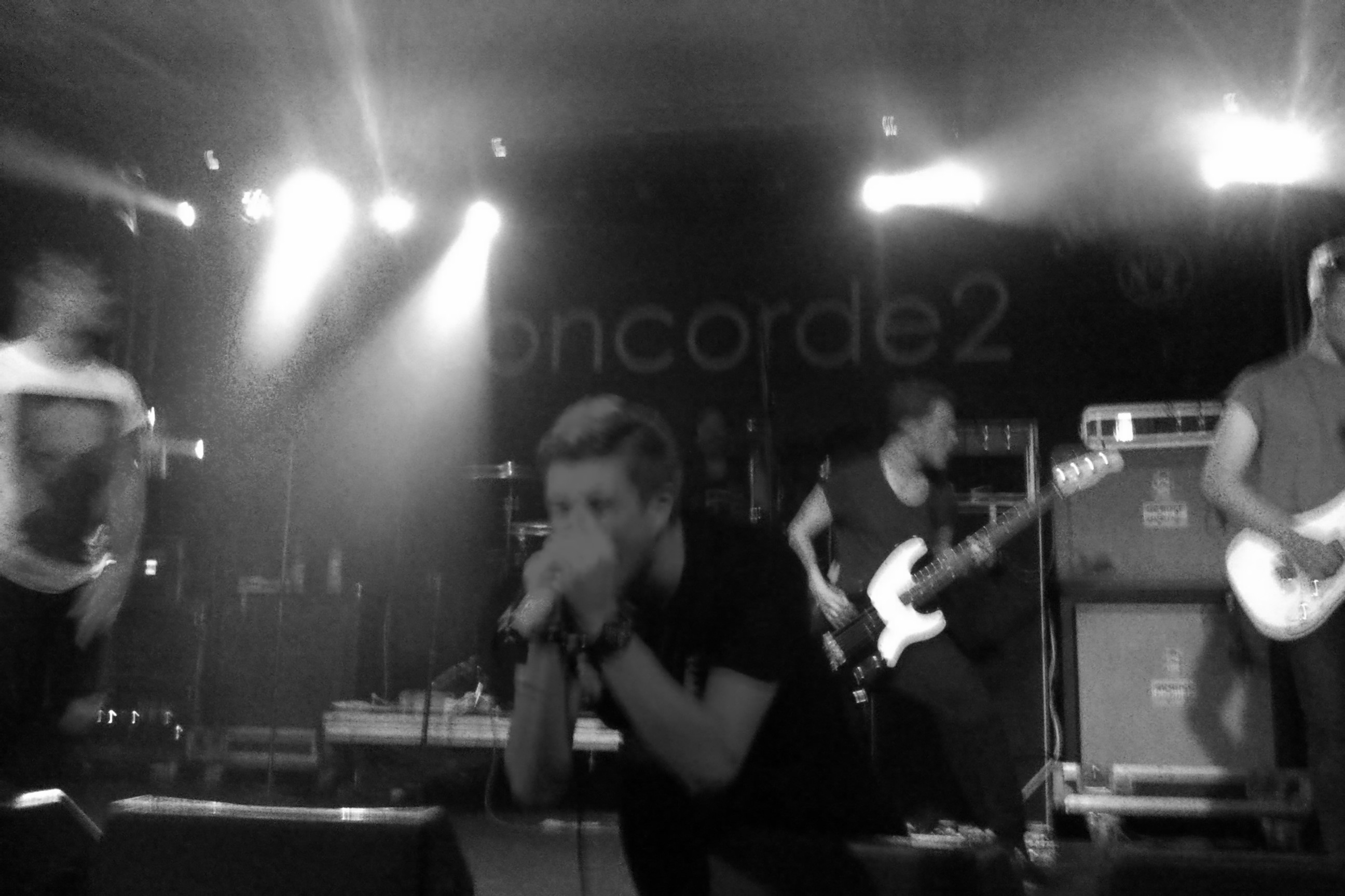 The Blackout, Concorde2, Brighton Great Escape 2013